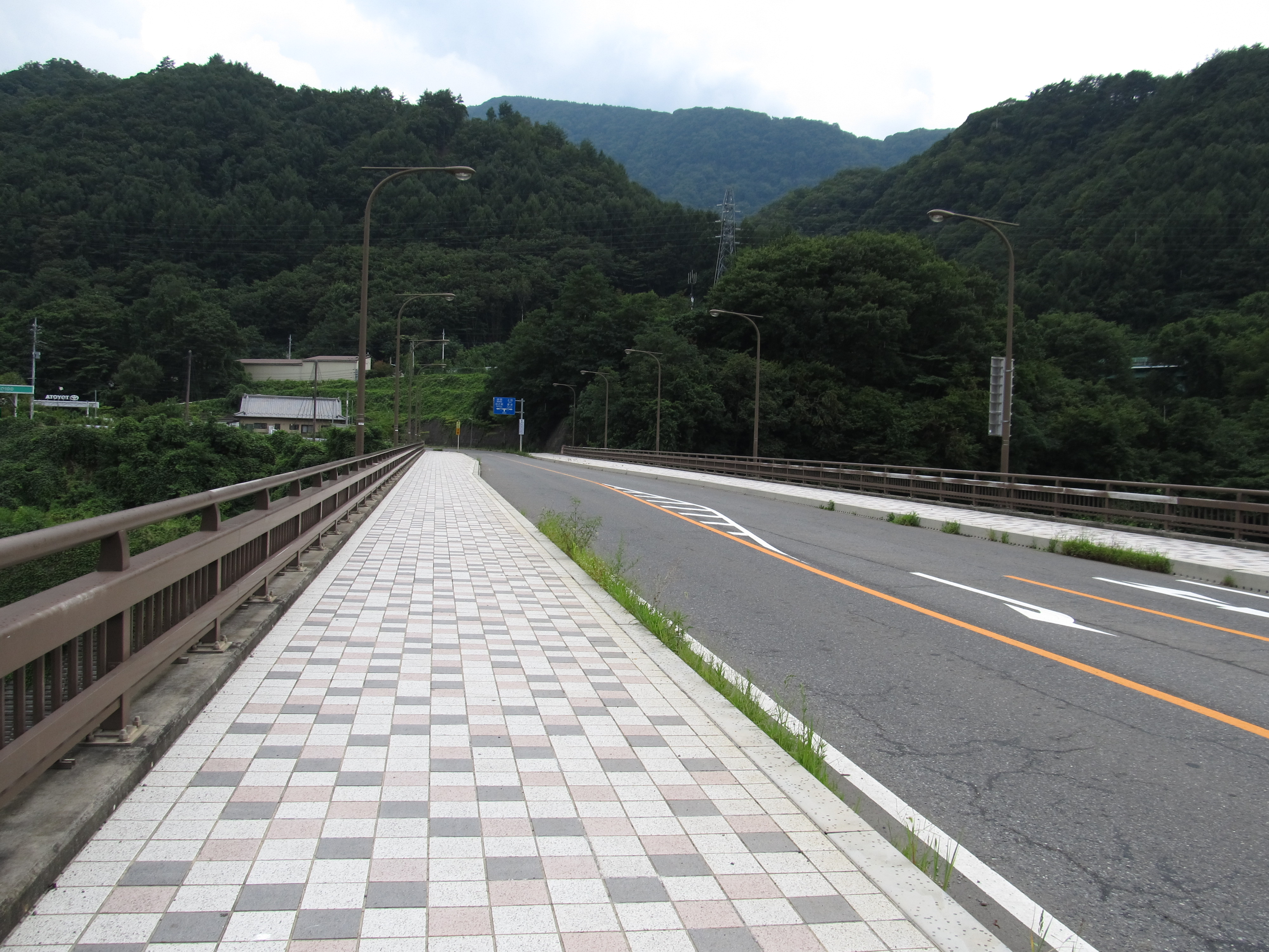 Naganohara Ekimae Ohashi (Naganohara Ekimae Bridge) over the Agatsuma River, part of the Gunma Prefectural Road Route 378